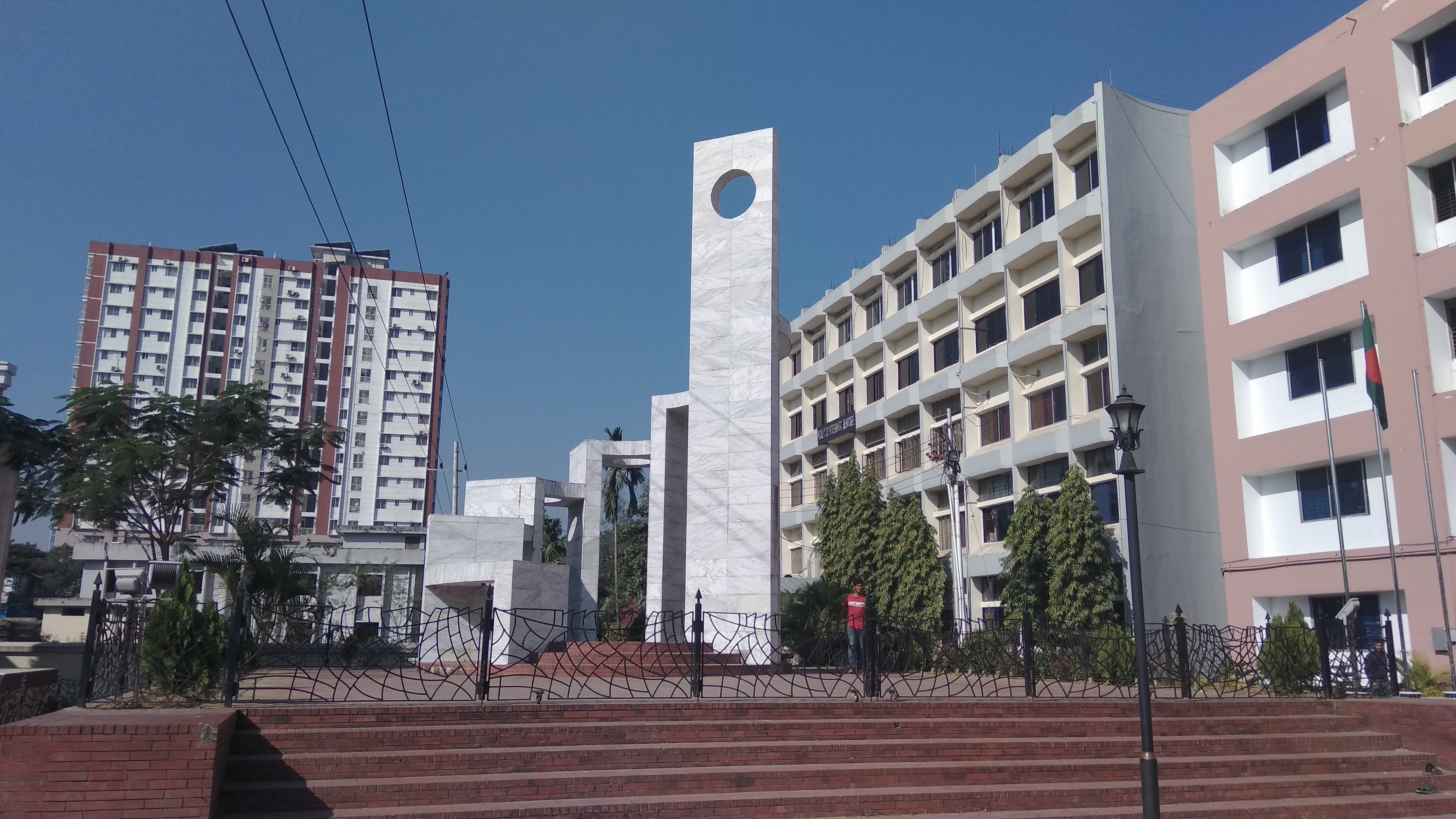 This is an image of the Shaheed MInar of CVASU.